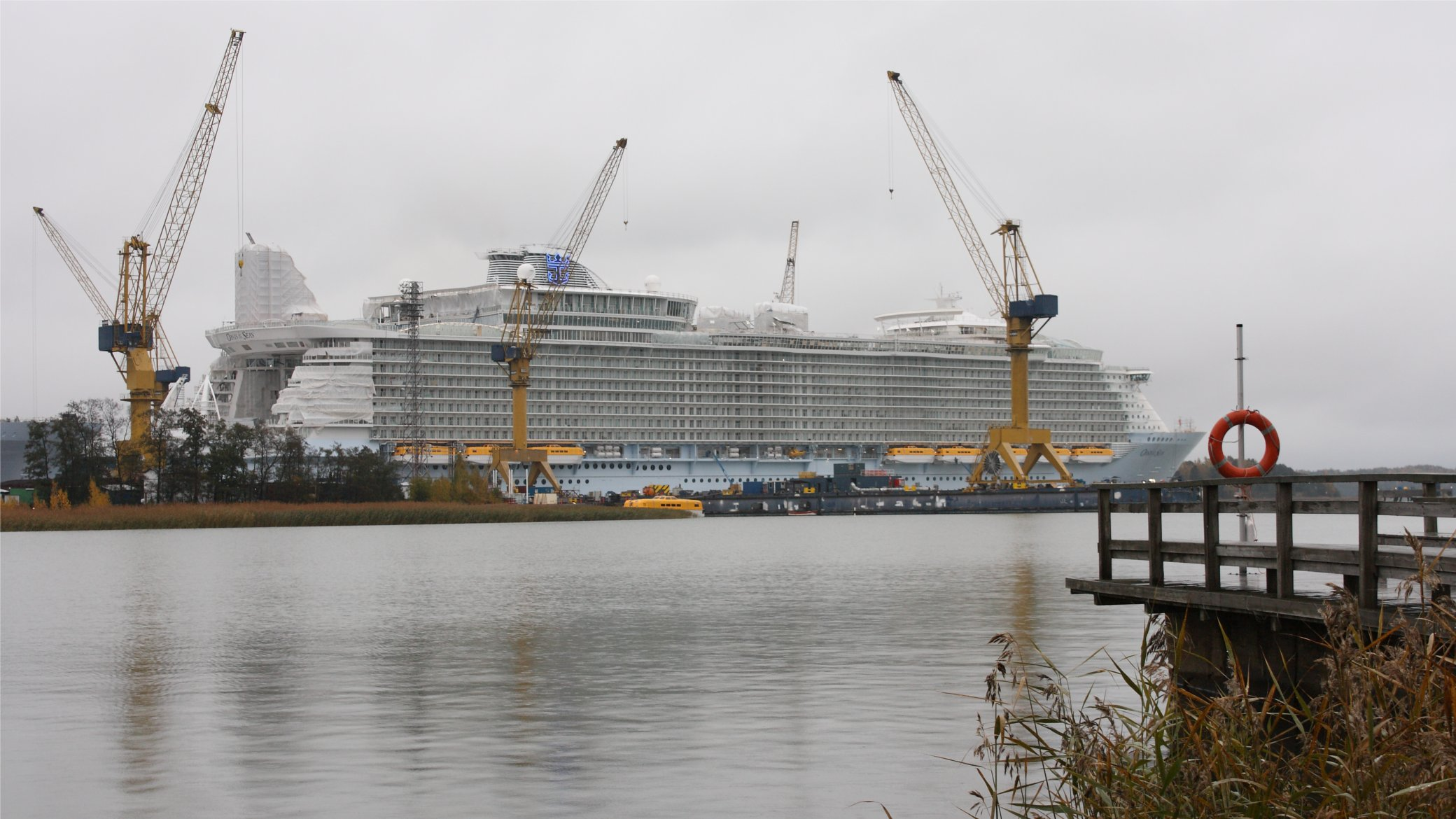 MS Oasis of the Seas at Turku New Shipyard.